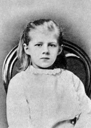 Lyubov Dostoyevskaya (1869—1926), second daughter of author Fyodor Dostoyevsky